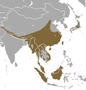 Masked Palm Civet (Paguma larvata) range